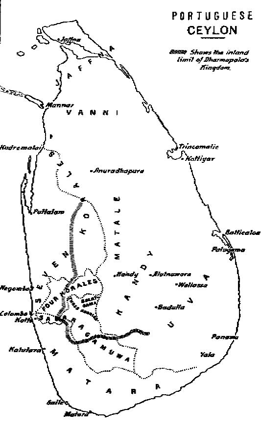 Portuguese Ceylon